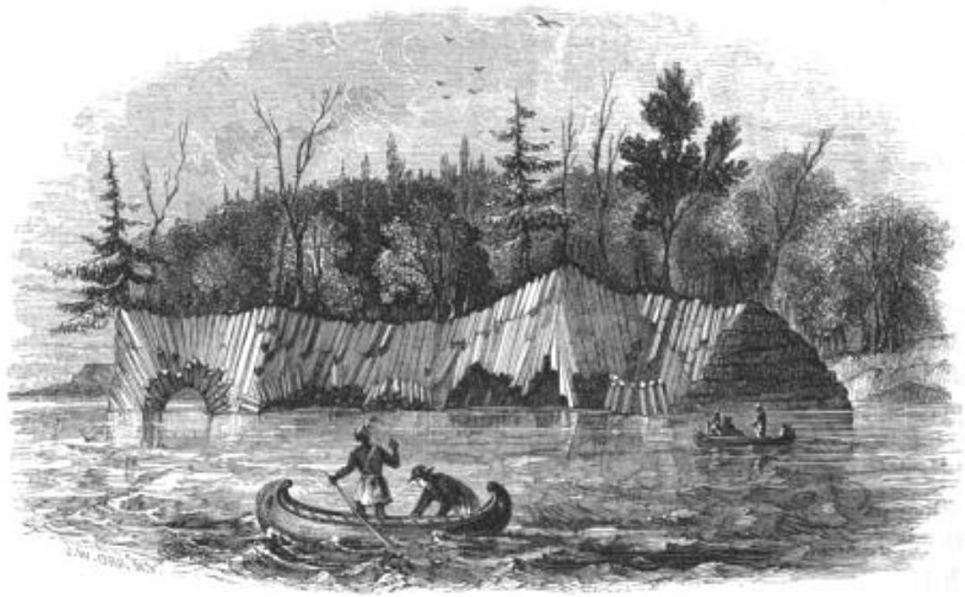 Columns of basalt on the northwest shore of Lake Superior